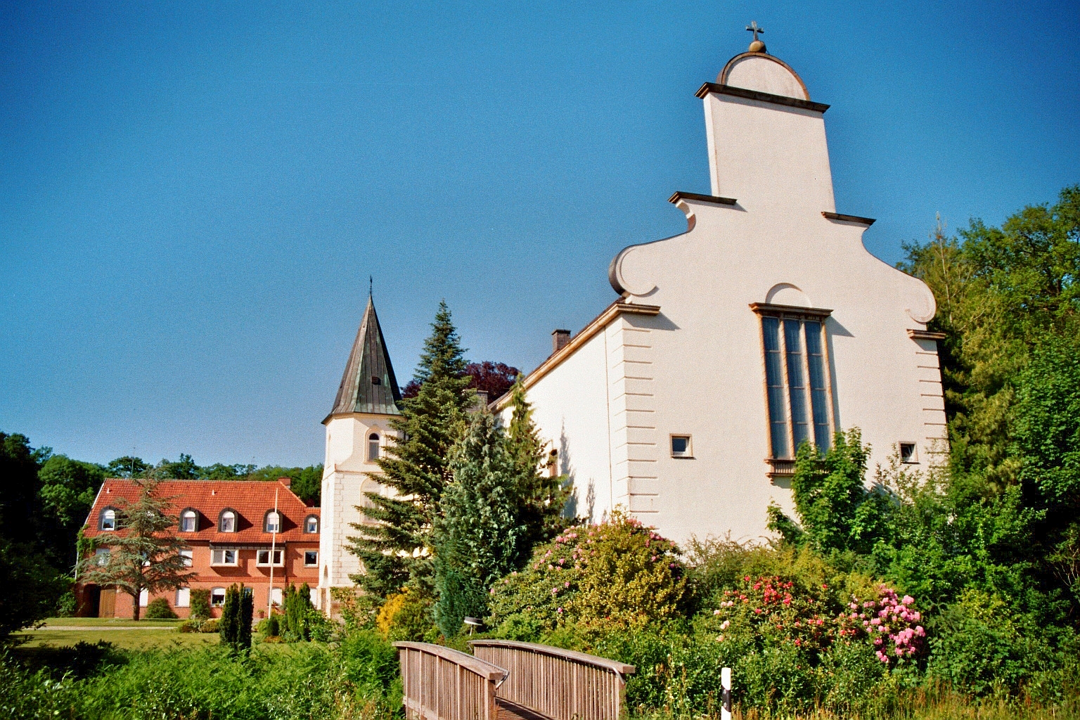 Gut Hange near Freren, Landkreis Emsland, Lower Saxony, Germany.